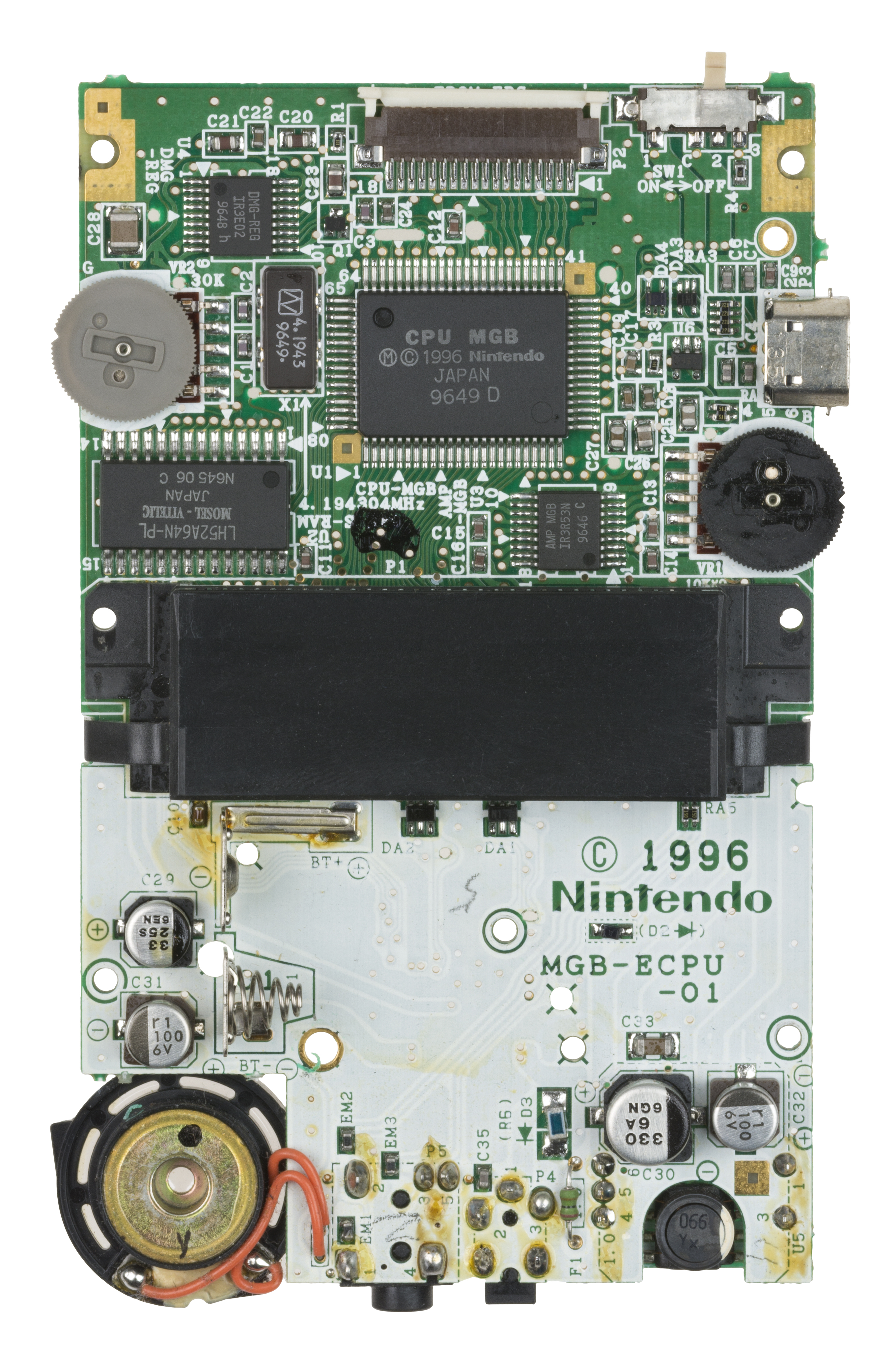 The motherboard for the Nintendo Game Boy Pocket handheld game console, originally released in 1996.